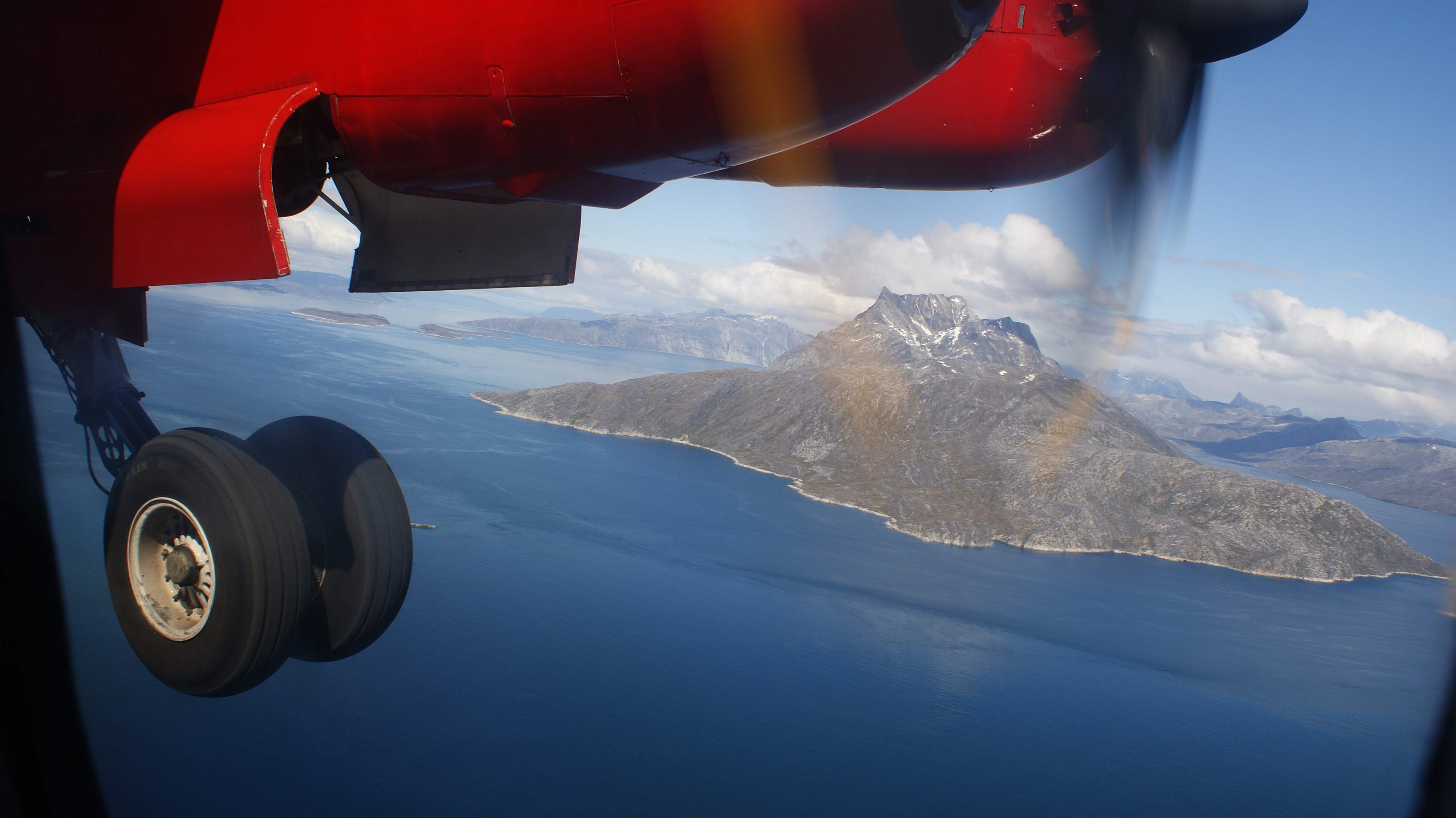 Air Greenland de Havilland Canada Dash-7 "Sululik" deploys the undercarriage during the Sisimiut-Nuuk flight. Sermitsiaq mountain in the background.